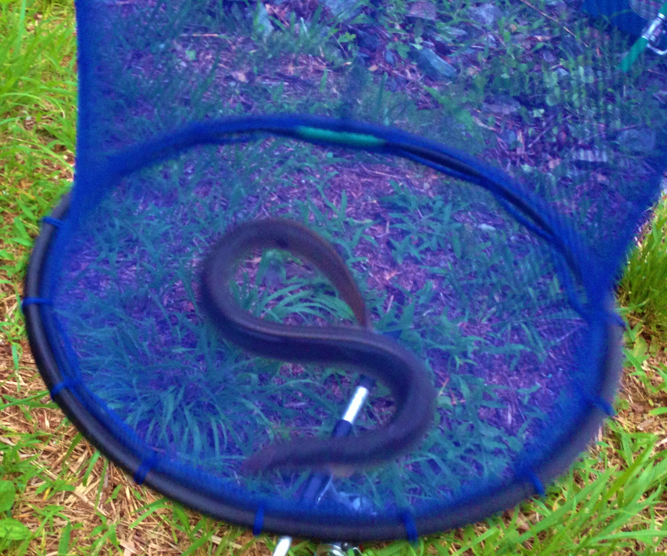 Unagi